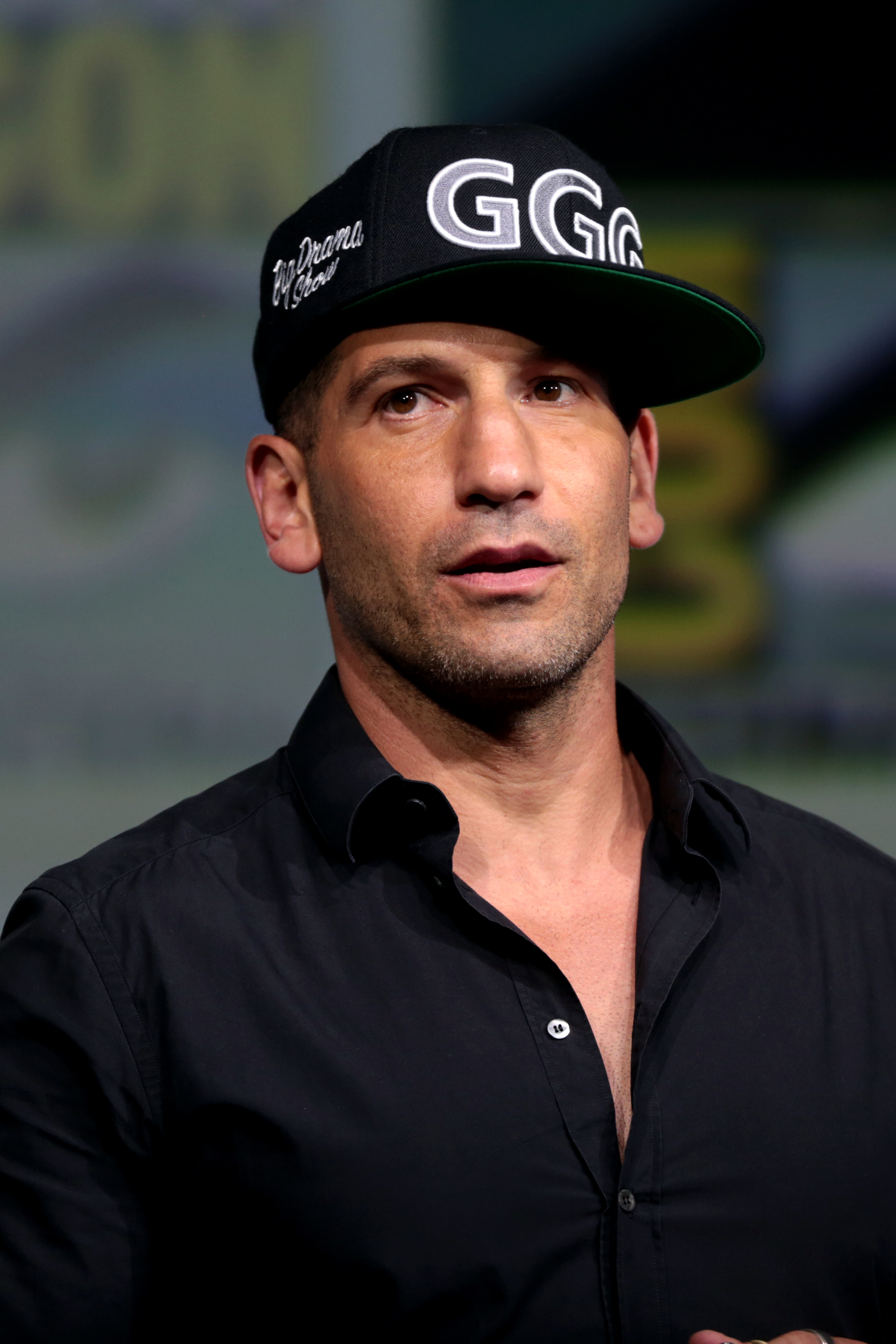 Jon Bernthal speaking at the 2017 San Diego Comic Con International, for "Marvel's The Punisher", at the San Diego Convention Center in San Diego, California.